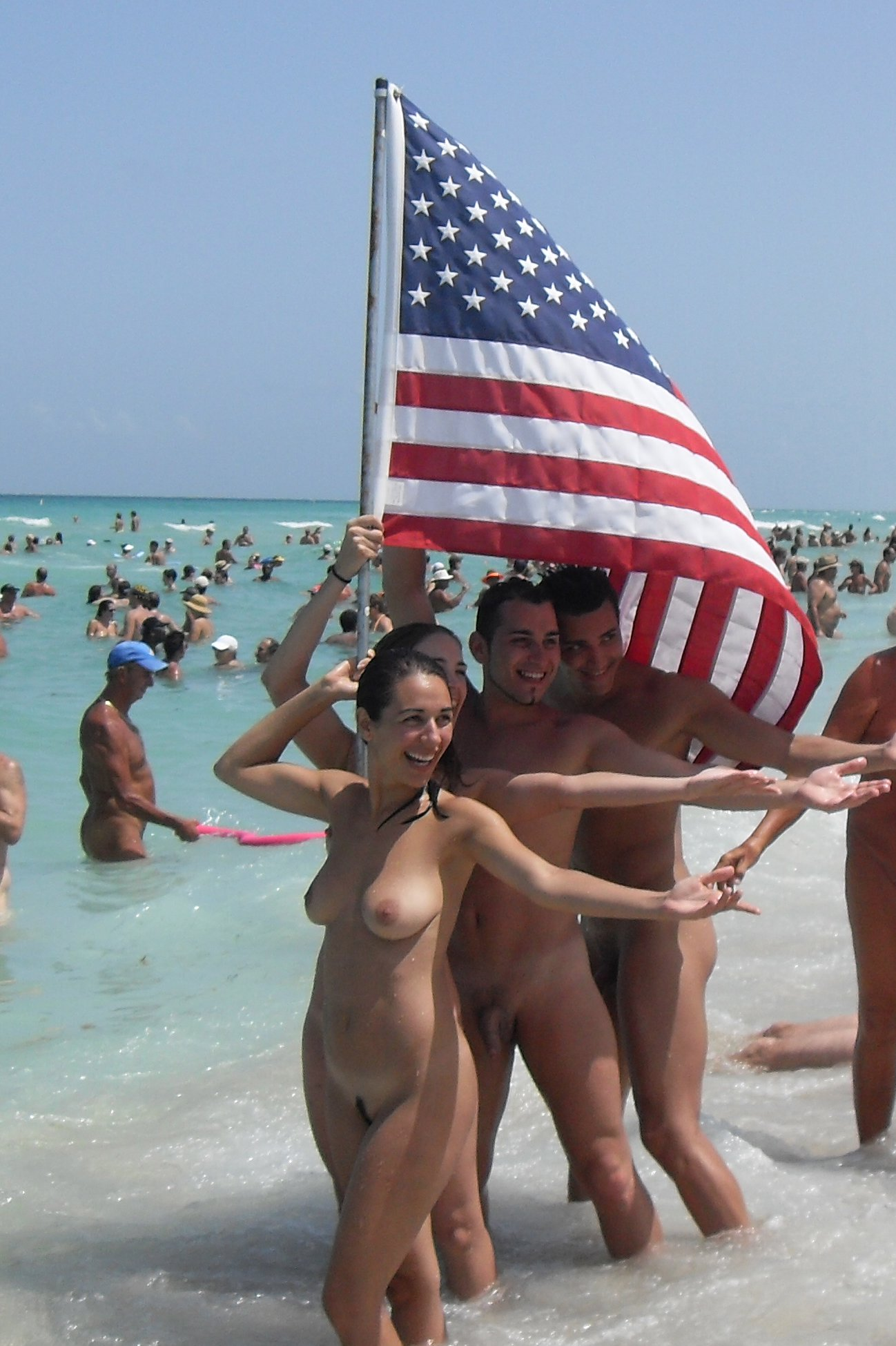 World record in skinny dipping at Haulover Beach, Florida.